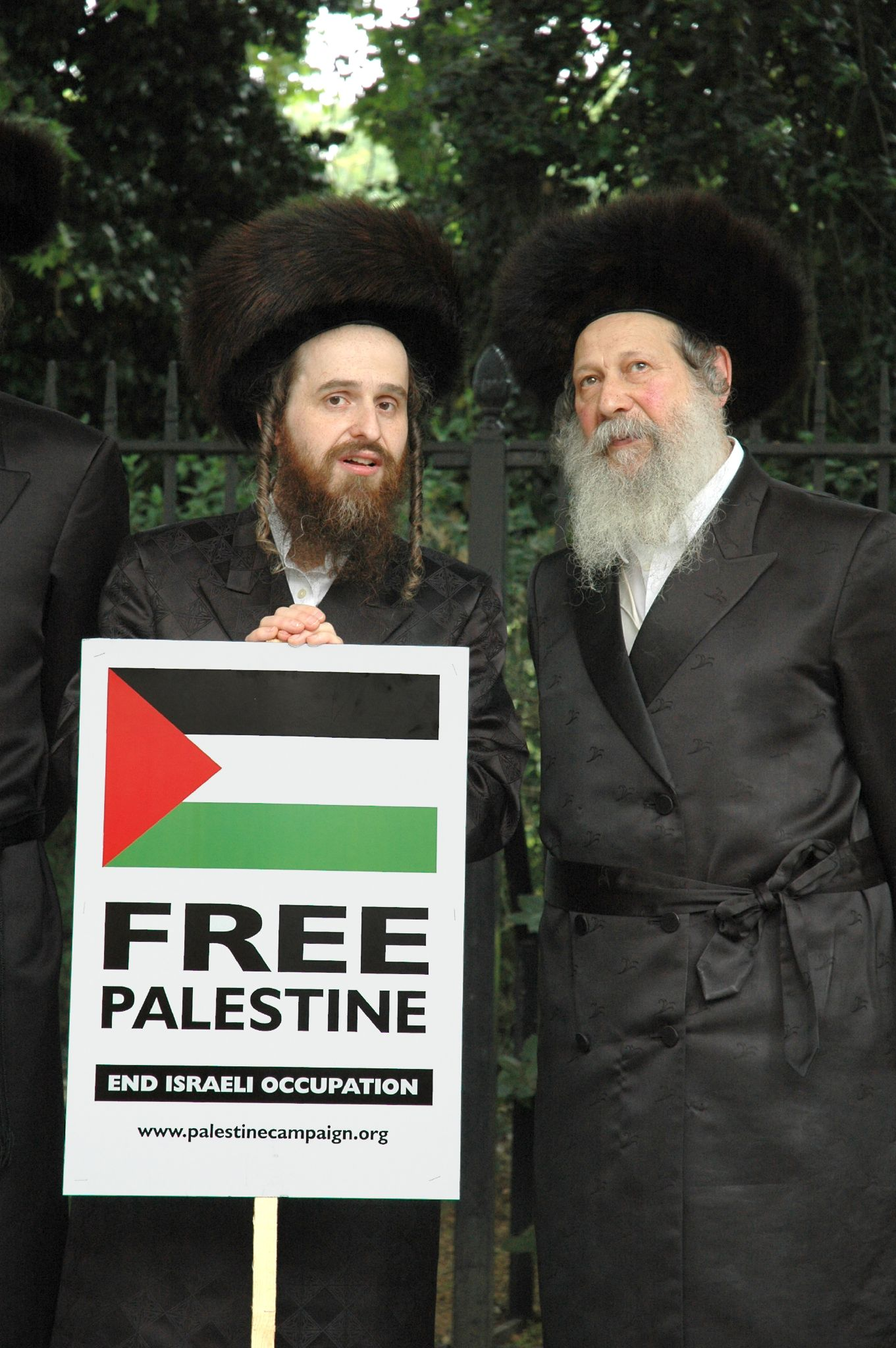 Members of the Neturei Karta Orthodox Jewish group protest against Israel.